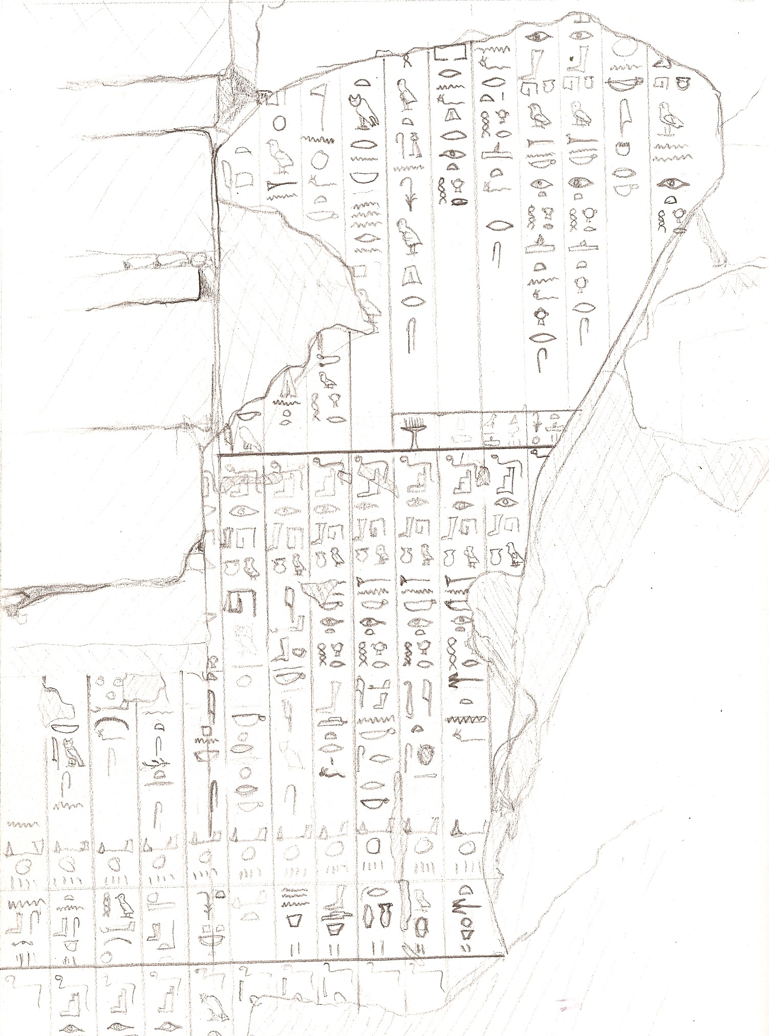 A sketch of the north wall of the burial chamber in the recently discovered pyramid of Behenu at South Saqqara near the pyramid of Pepi I.